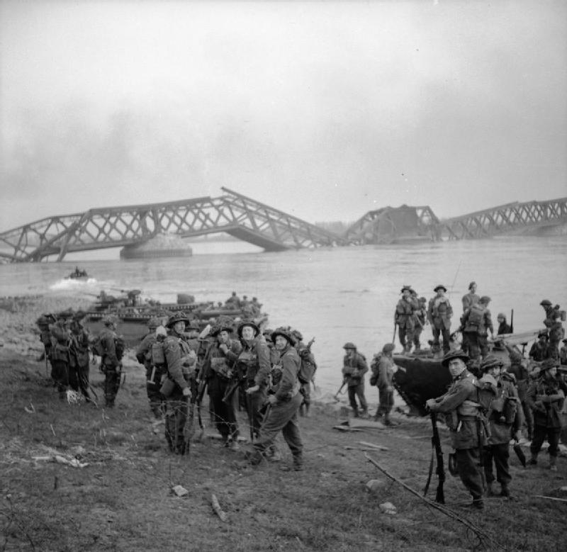 Men of the 1st Cheshire Regiment crossing the Rhine in Buffaloes at Wesel.